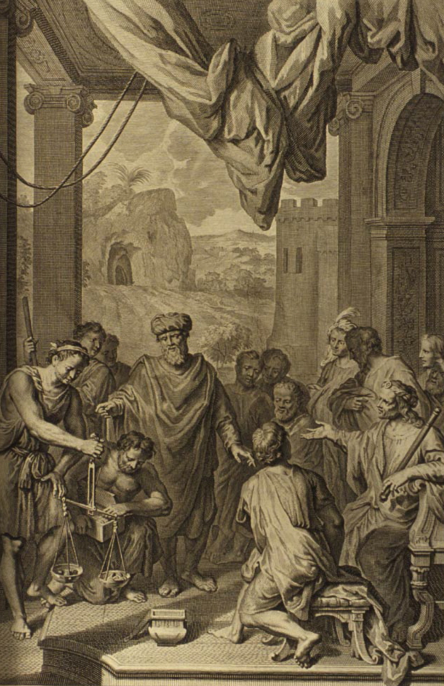 Abraham weighes four hundred shekels of silver for the Cave, as in Genesis 23:16: "And Abraham hearkened unto Ephron; and Abraham weighed to Ephron the silver, which he had named in the audience of the sons of Heth, four hundred shekels of silver, current money with the merchant." (KJV); illustration from the 1728 Figures de la Bible; illustrated by Gerard Hoet (1648-1733) and others, and published by P. de Hondt in The Hague; image courtesy Bizzell Bible Collection, University of Oklahoma Libraries